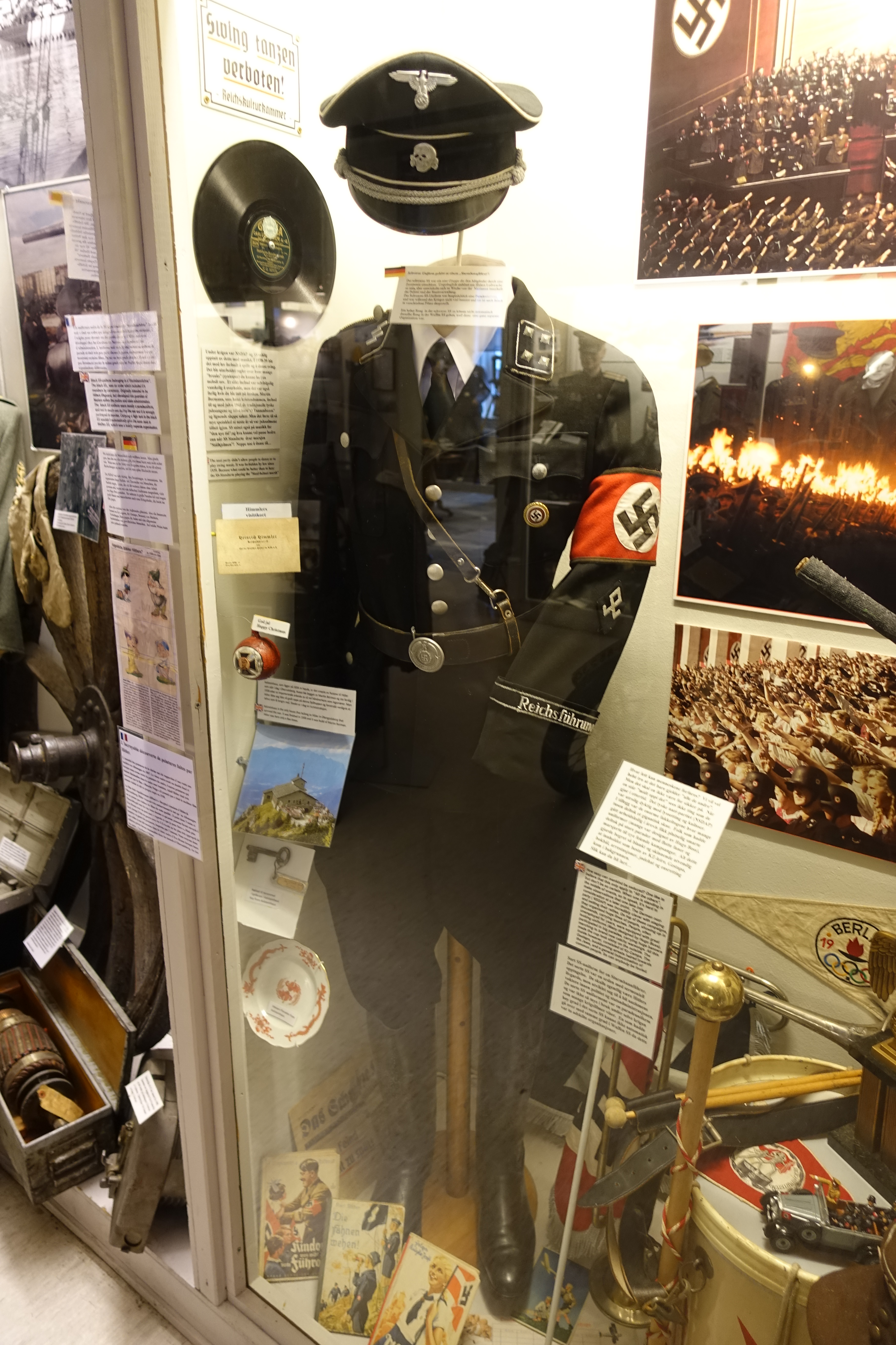 Black parade uniform of NSDAP's Allgemeine SS in Nazi Germany, with rank insignia of SS-Sturmbannführer on the collar patches/tabs, "Reichsführung-SS" brassard cuff title band on lower left sleeve, and Odal rune SS Race and Resettlement sleeve diamond (insignia for members of the Rasse- und Siedlungshauptamt der SS). SS visor cap with skull emblem (Totenkopf), SS armband/armlet with swastika, boots, Sam Browne belt, etc. Propaganda photographs from Nazi rallies and German parliament (Reichstag) card of Heinrich Himmler Swing Tanzen verboten sign (probably a modern day fake) Children's books of Nazi Germany Misc. items. From the exhibitions at Lofoten War Memorial Museum ("Lofoten Krigsminnemuseum") in Svolvær, Norway. Photo taken on 2019-05-08